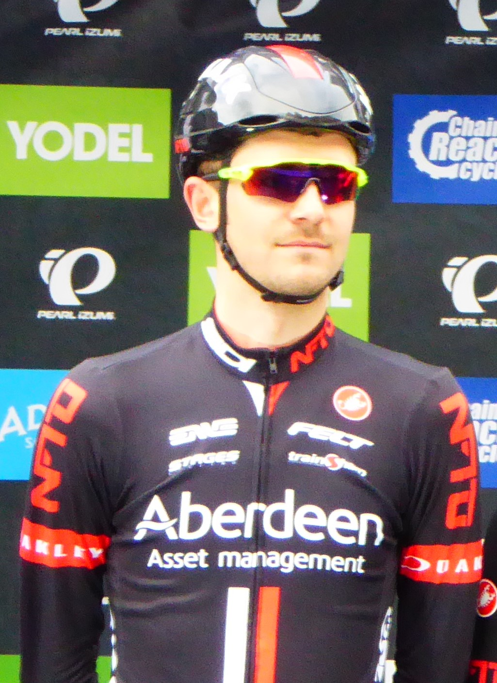 Dale Appleby, pictured at Round 3 of the Pearl Izumi Tour Series in Edinburgh on 19 May 2016.